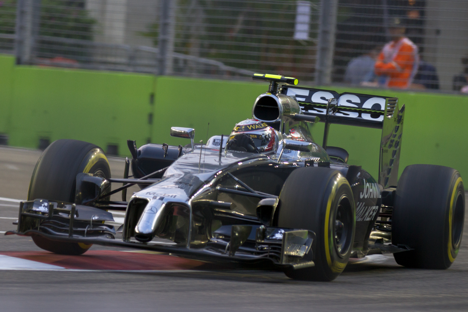 Formula One 2014 Rd.14 Singapore GP: Kevin Magnussen (McLaren)